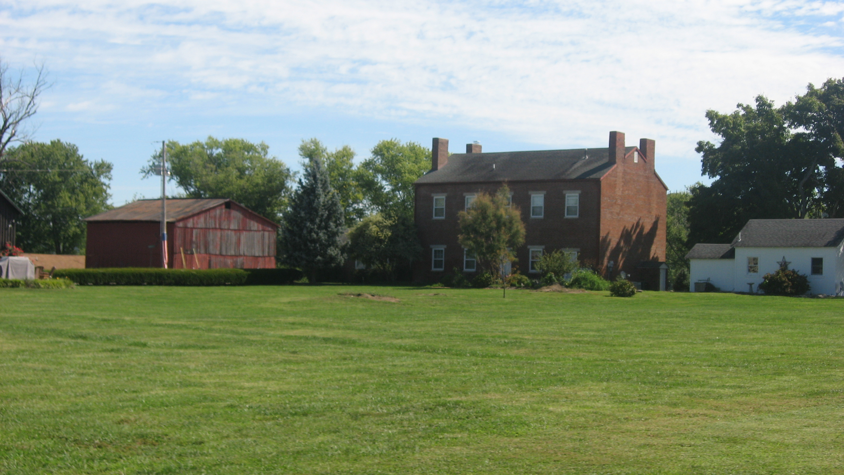 Buildings at the Abbott-Holloway Farm, located along Camp Creek-Bethlehem Road on the southern edge of Bethlehem, Indiana, United States. Built in 1830, it is listed on the National Register of Historic Places, and it is part of a Register-listed historic district, the Old Jeffersonville Historic District.